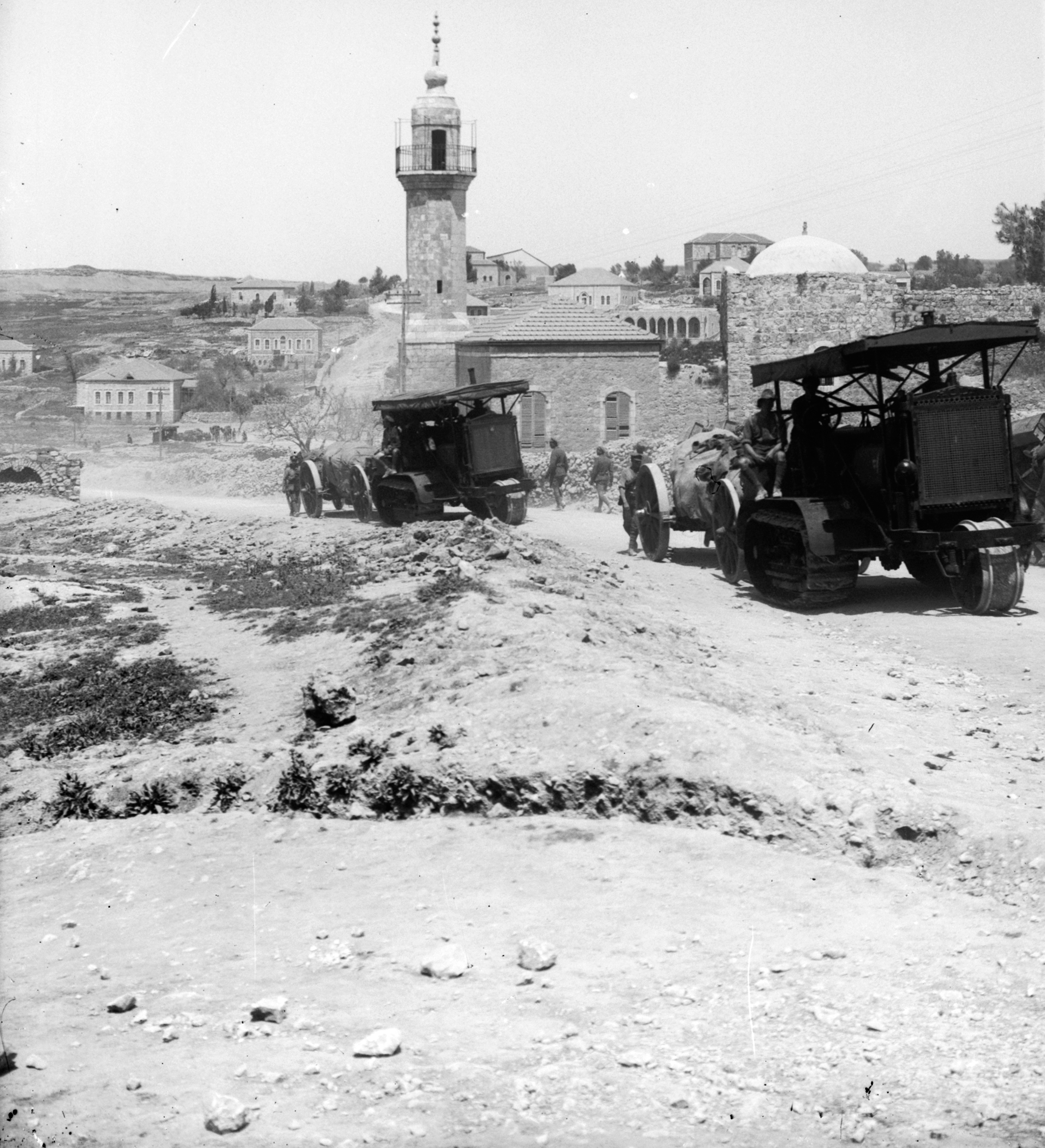 Various results of the war. British artillery passing through Jerusalem. British Army 94th Heavy Battery guns.